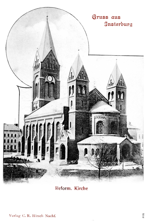 Eform church in Chernyakhovsk (before 1945 Insterburg)Insterburg